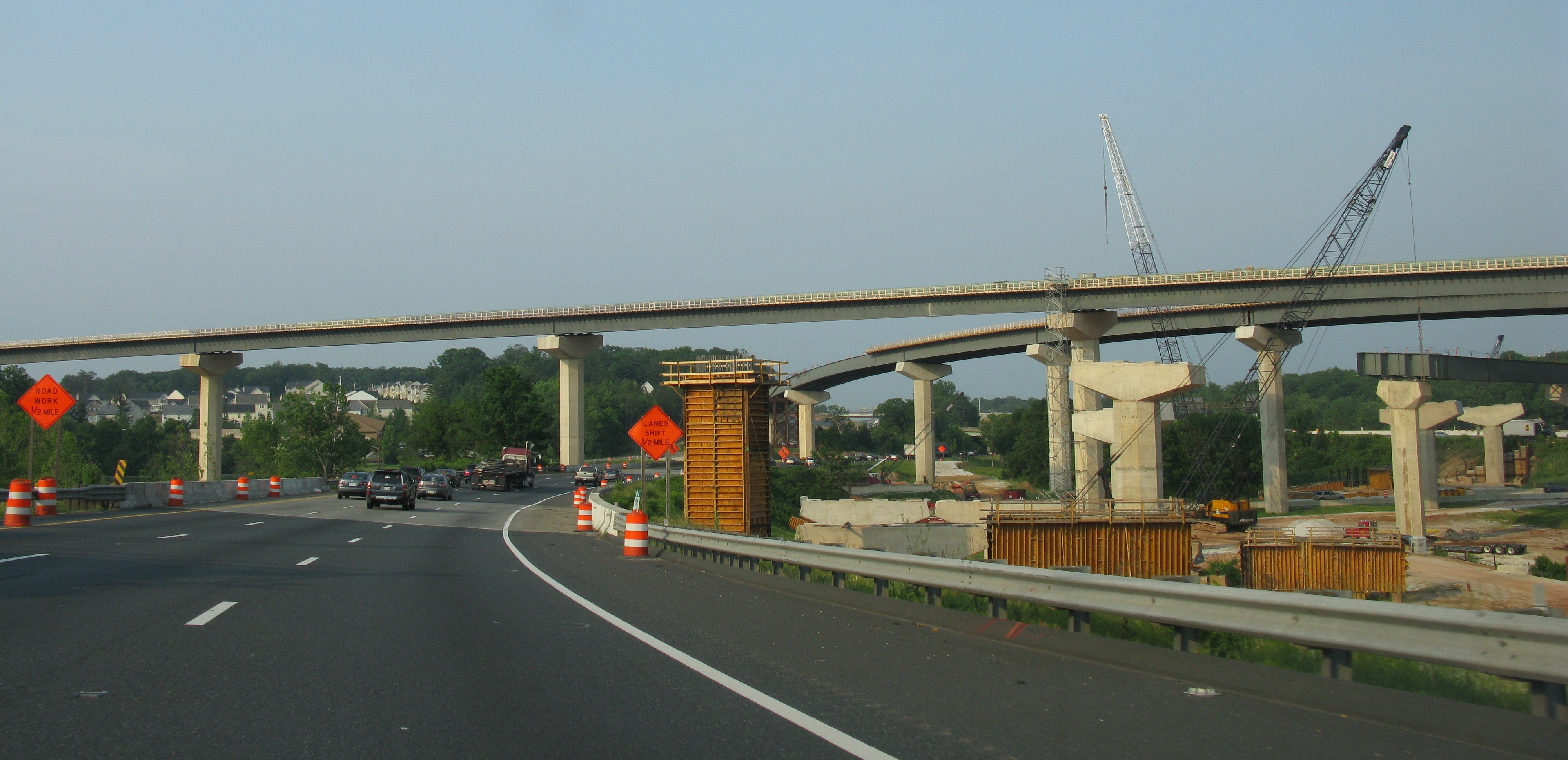 I-95 northbound at I-695 (eastern interchange), Baltimore, MD, USA. The bridge is being reconstructed from a fully grade-separated diverging diamond interchange to a more conventional stack interchange.